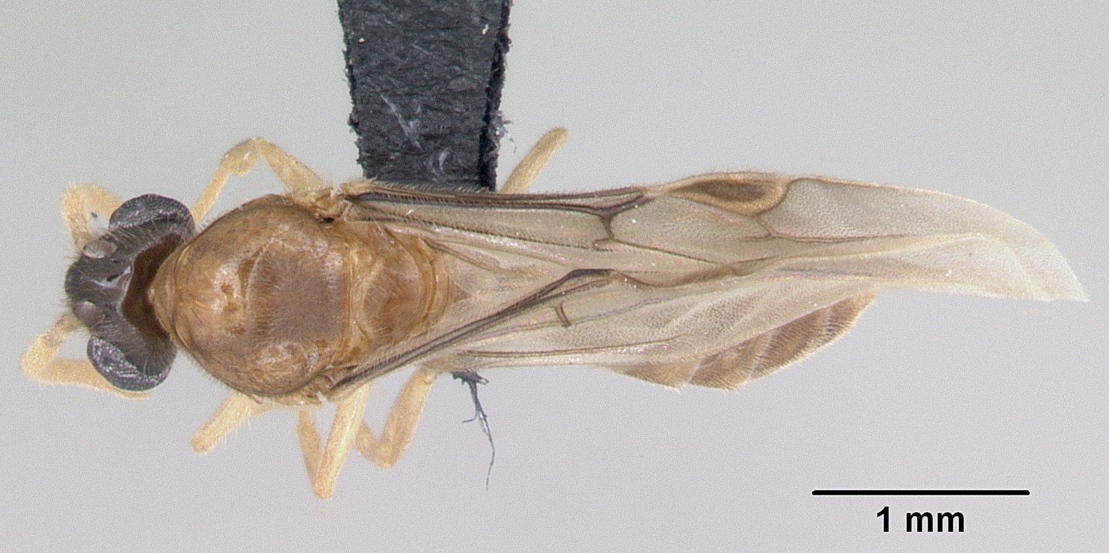 Dorsal view of ant Adetomyrma venatrix specimen casent0490924.